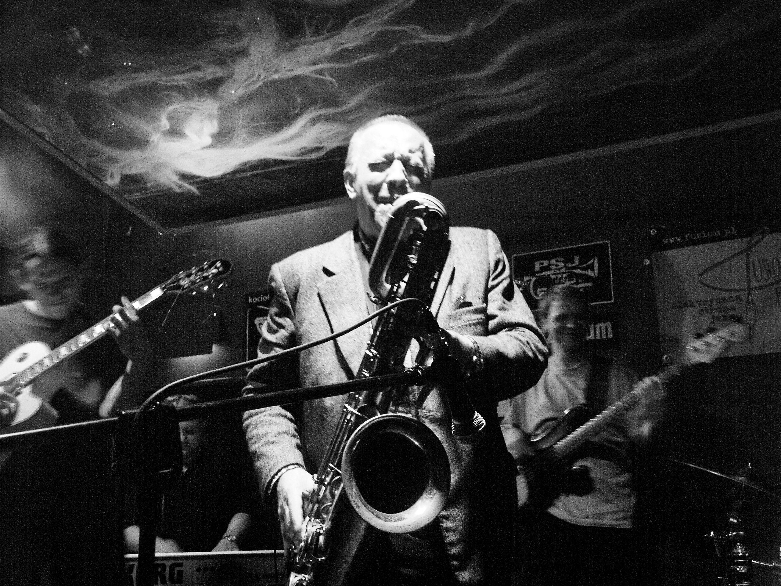 Waldemar Kurpiński & Tress Jazz band in Tygmont Club, Warsaw, Poland